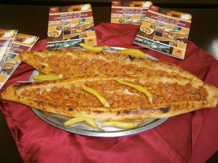 Pastrmalija